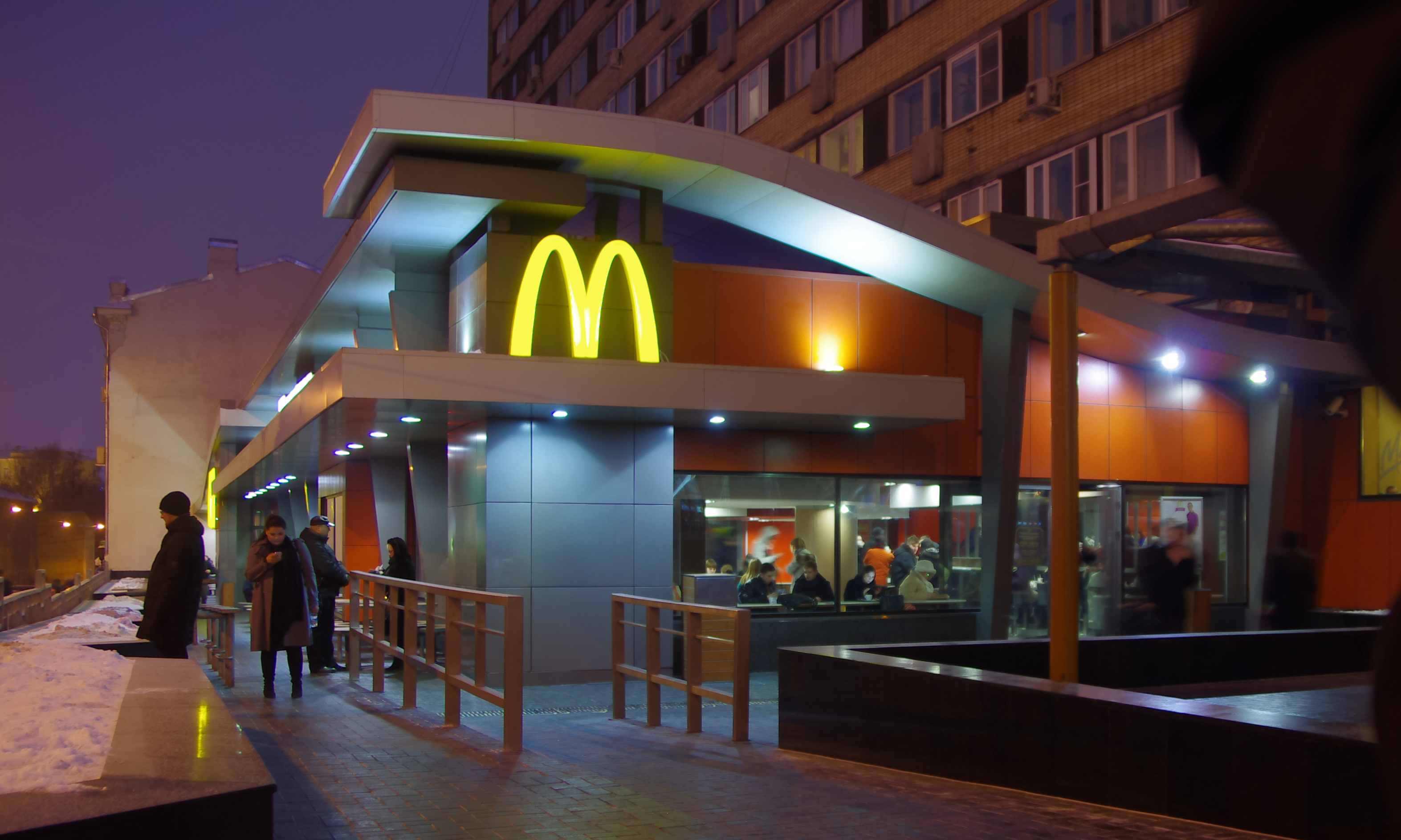 McDonalds, Moscow, Pushkinskaya (2013)